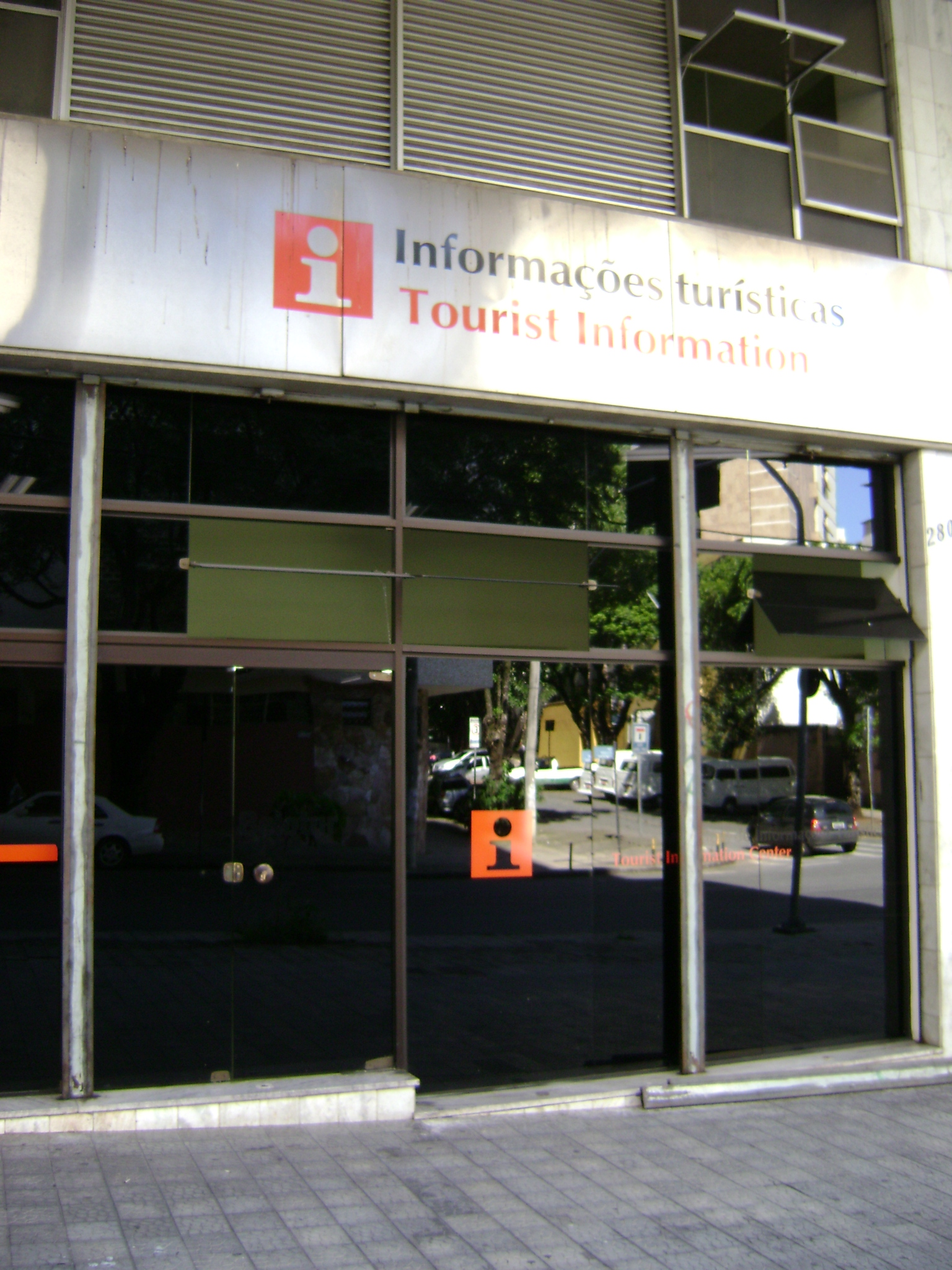 Belotur